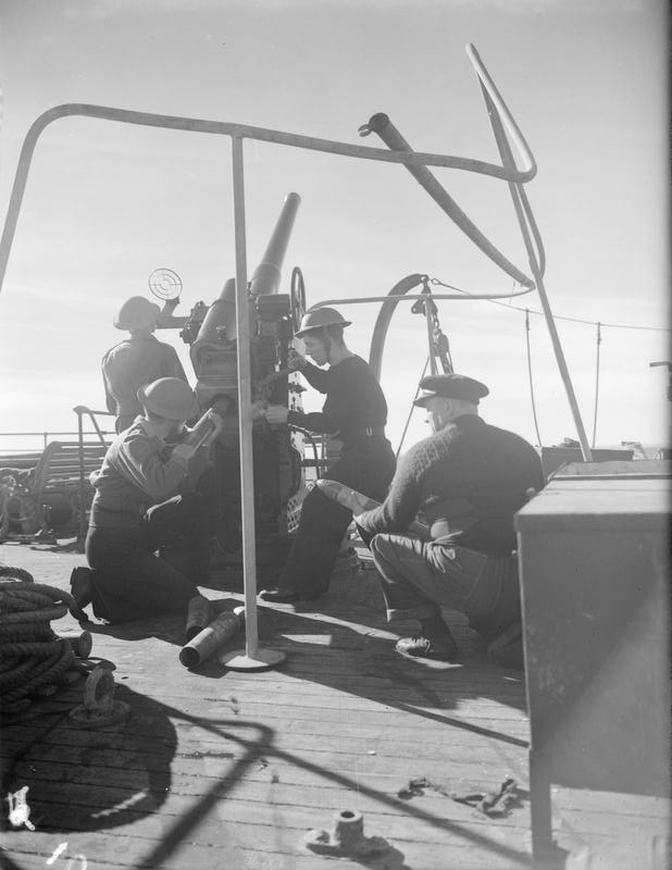 From "alex" To Benghazi- Men of the Merchant Navy Back 8th Army Victories. 31 December 1942 To 6 January 1943, Alexandria To Benghazi. Men and Ships of the Merchant Navy Backing Up the Eighth Army's Victorious Advance in North Africa. They Carry Vital Supplies From Alexandria To Benghazi, Where the Royal Navy and Army Co-operate in Landing the Stores and Sending Them on To the Men in the Fighting Line. On the way to Benghazi: the guns crew of a merchantman doing a practice shoot with their 12-pounder anti-aircraft gun. The Boatswain (right) passes the ammunition.